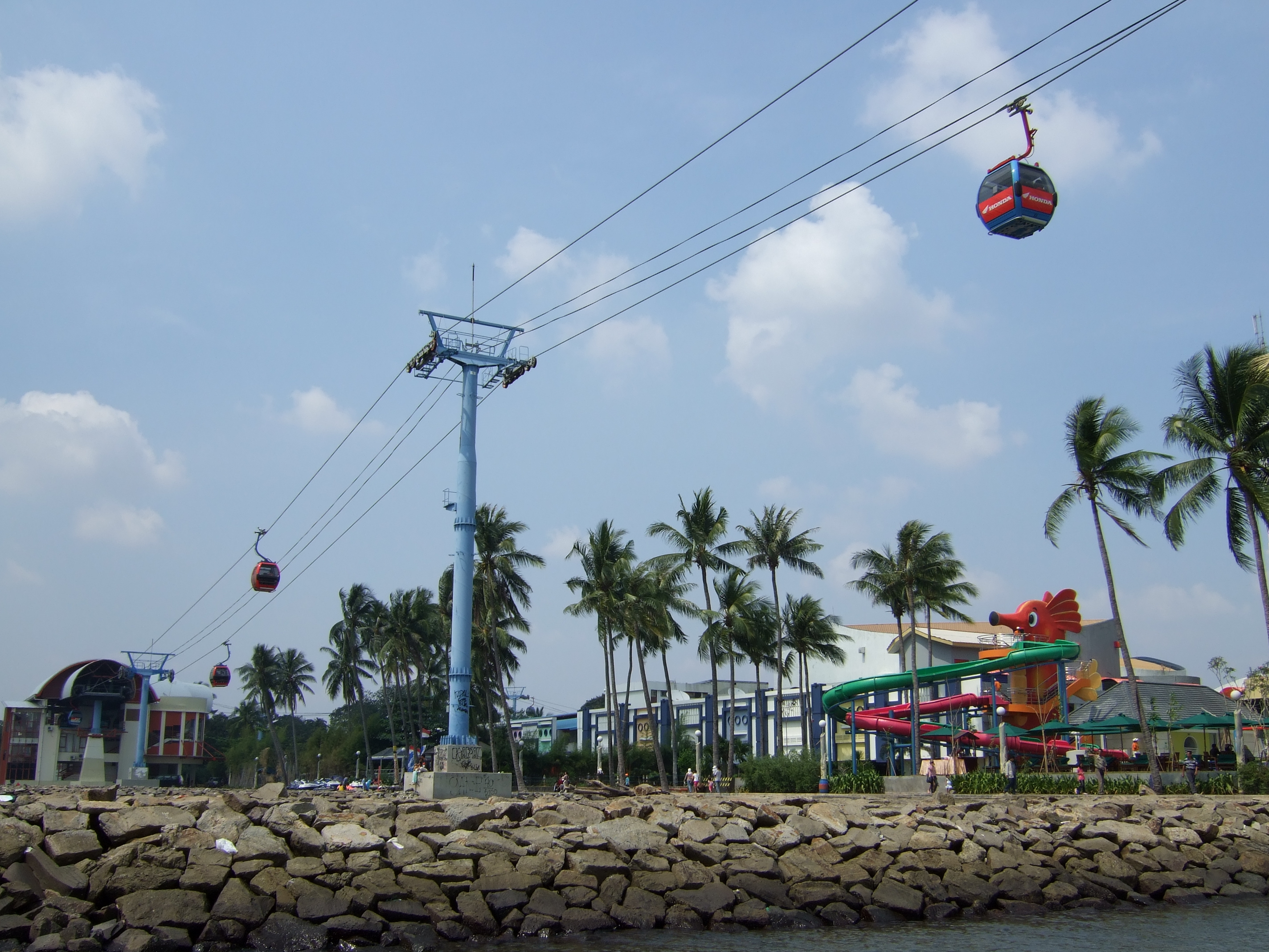 Gondola lift, Ancol Jakarta Bay City, Indonesia